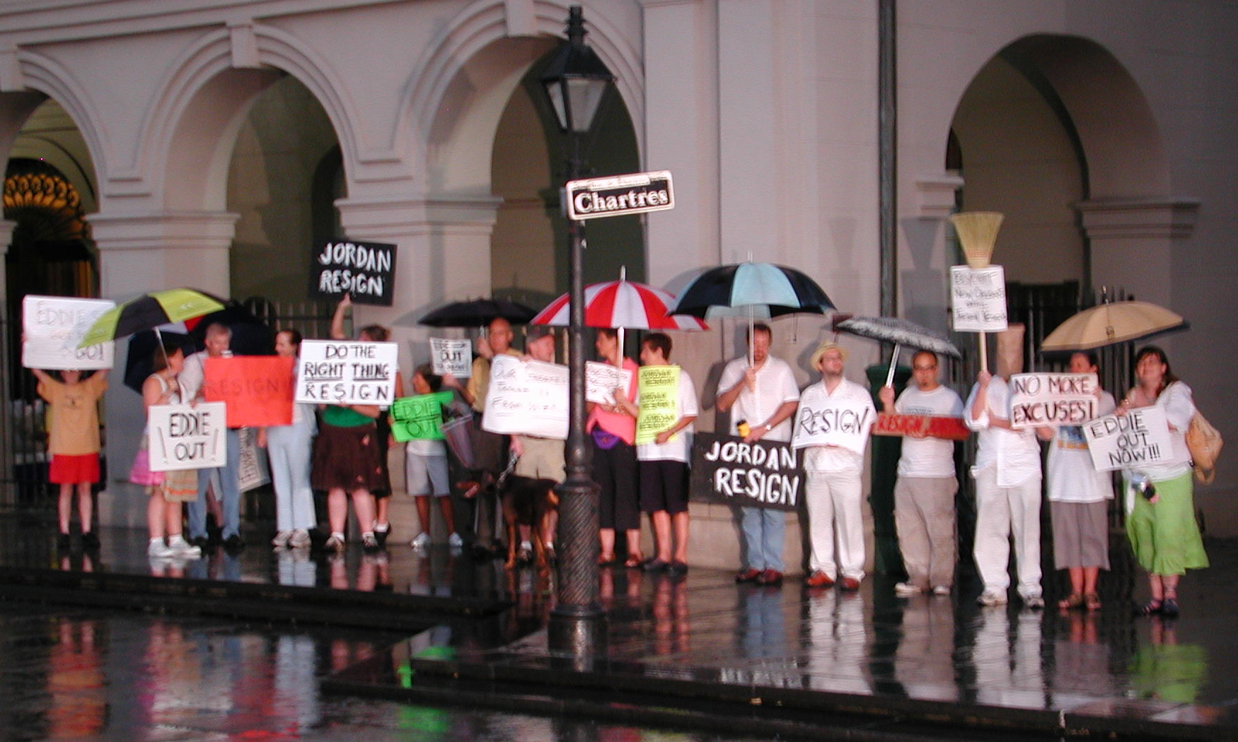 New Orleans: Protest against District Attorney Eddie Jordan in Jackson Square. The rain couldn't stop us.